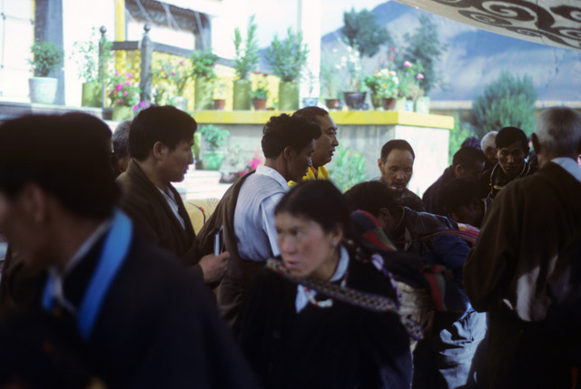 August 1987, The Panchen Lama was visiting Tibet, thousands of Tibetans walked for days to line up and receive a touch on the head as a blessing from the Panchen Lama